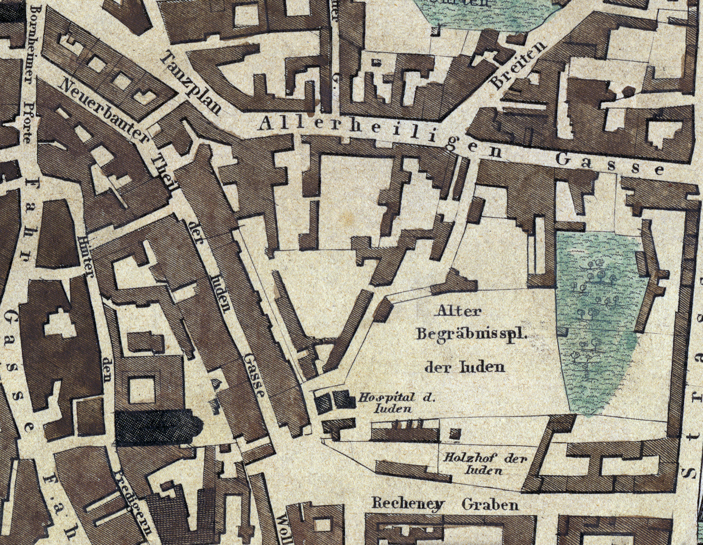 Crop of historical drawing of 1845, city of Frankfurt am Main, Hesse, Germany, focus on old Jewish cemetery from 1180, Judengasse, Judenmarkt